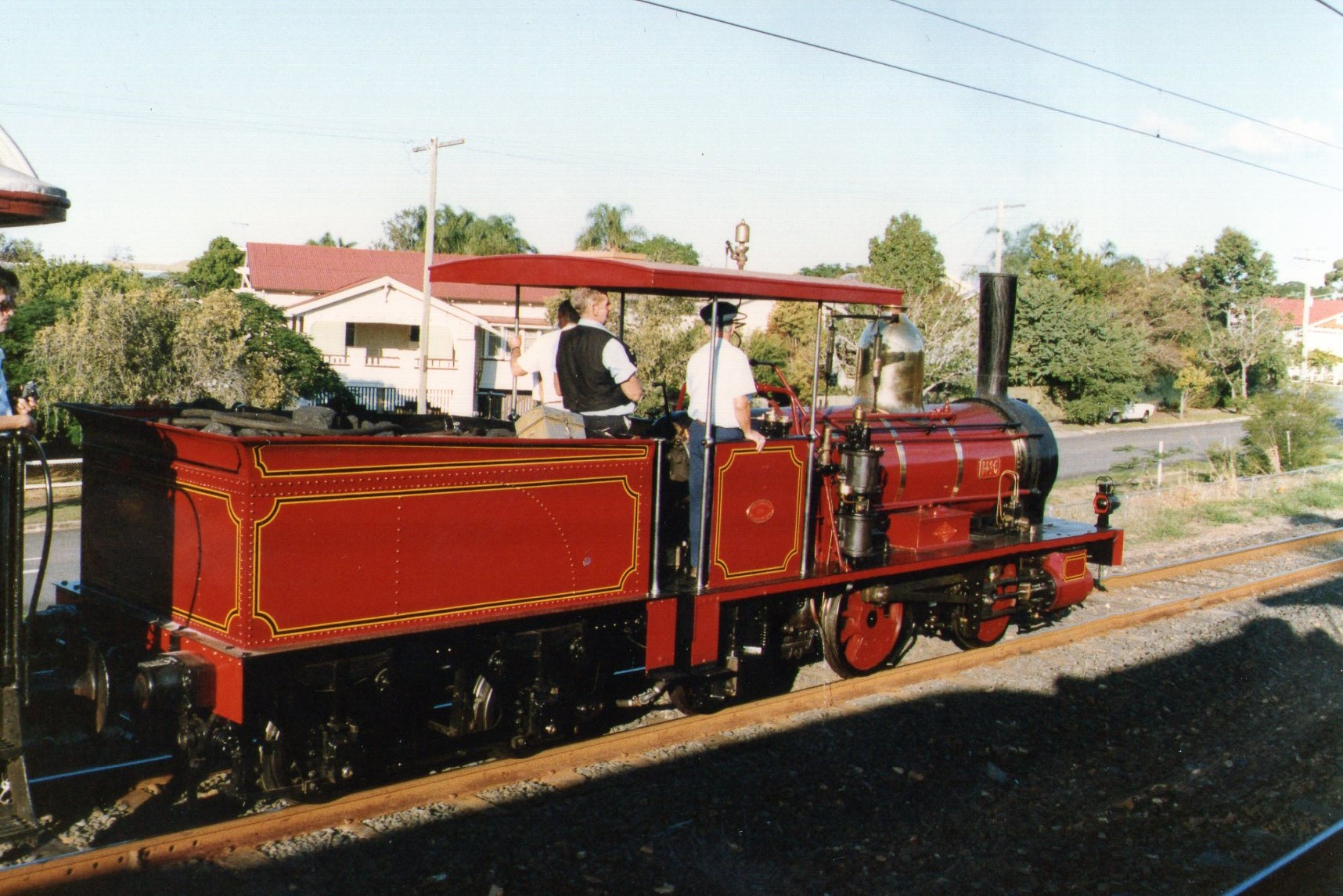 QR heritage loco A10 no. 6 ~1990